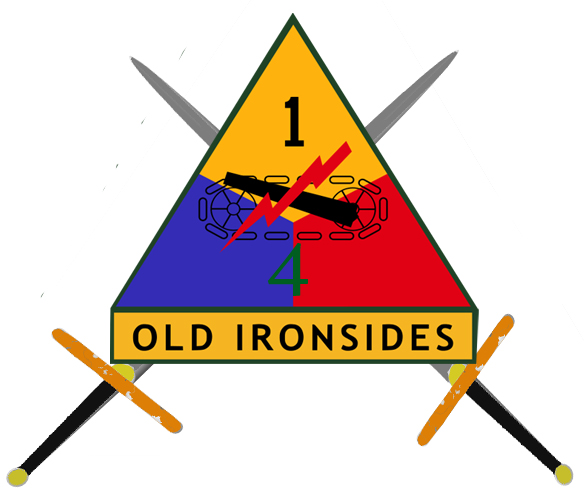 Brigade insignia for the 4th Heavy Brigade Combat Team, 1st Armored Division